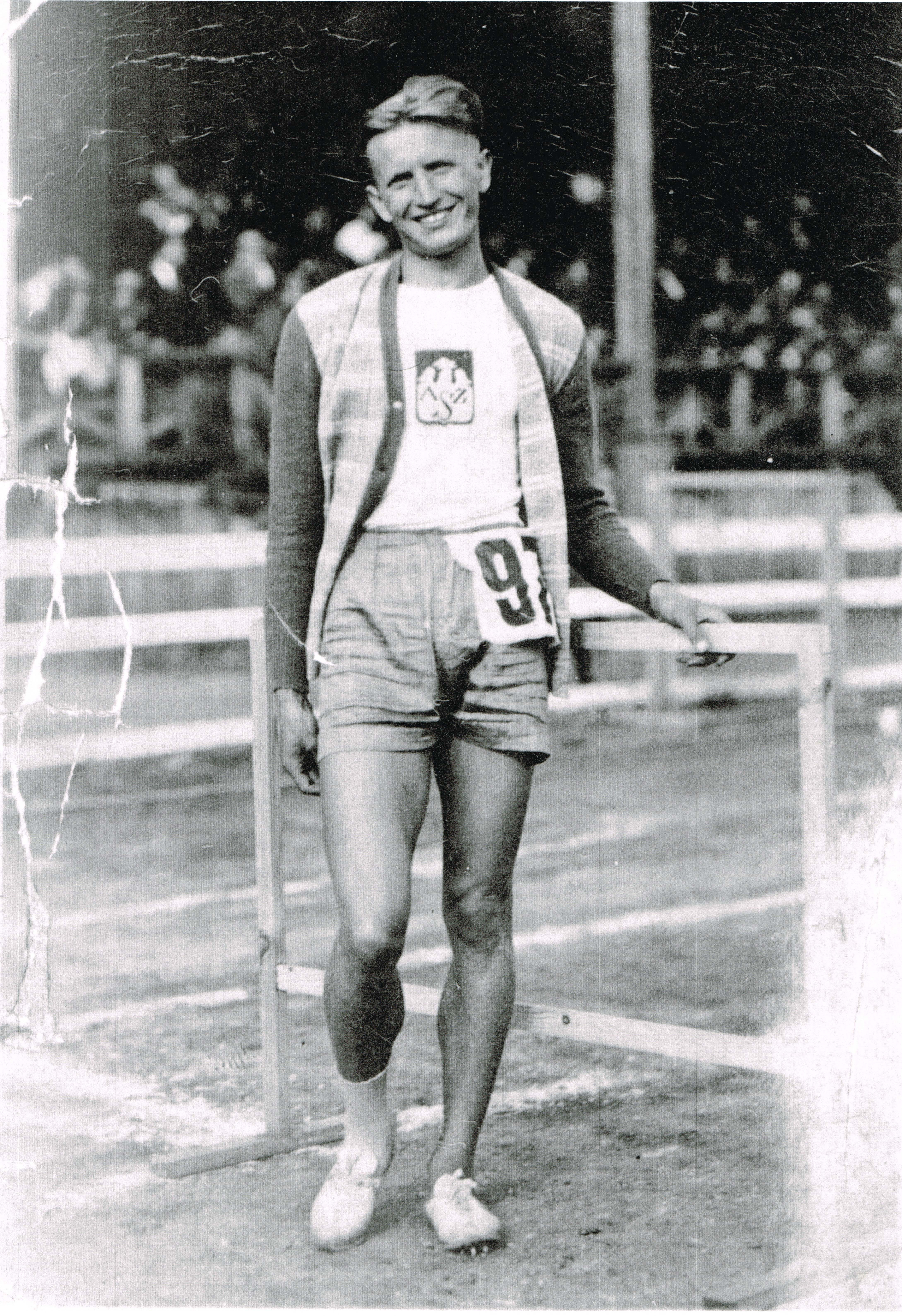 Polish middle distance runner Stefan Kostrzewski